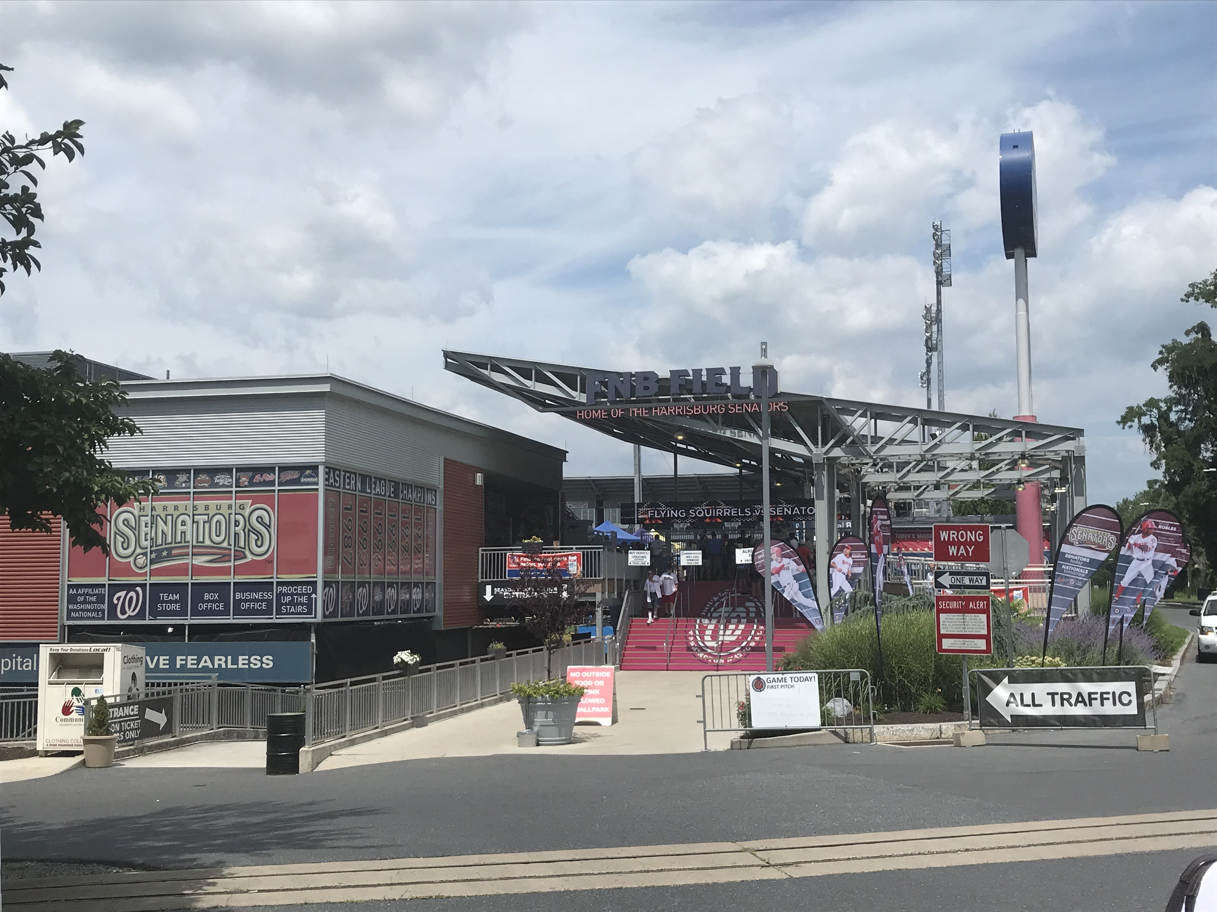 The entrance to FNB Field, home of the Harrisburg Senators